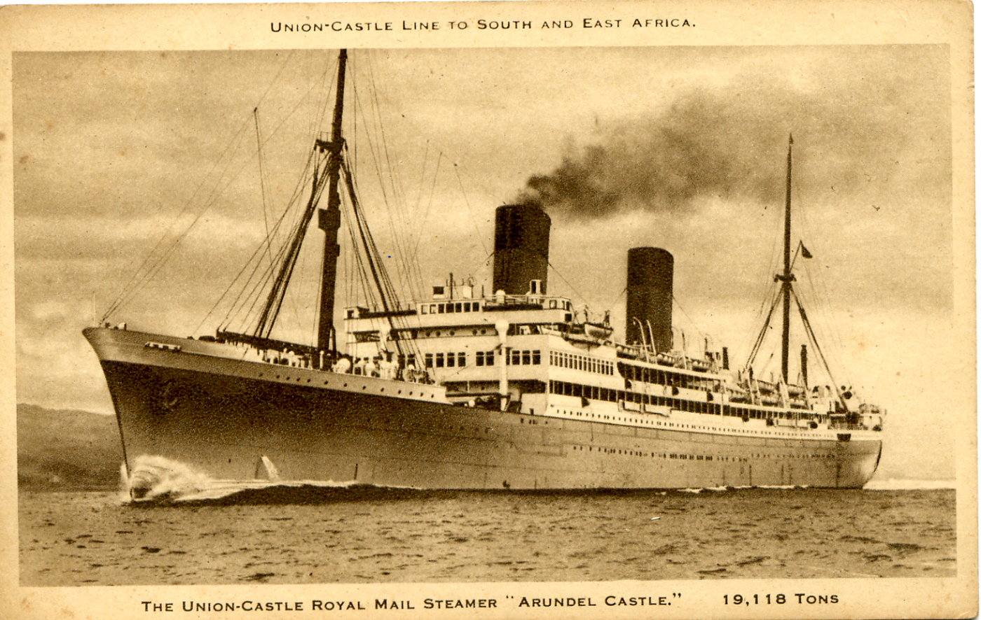 Old postcards of British ships